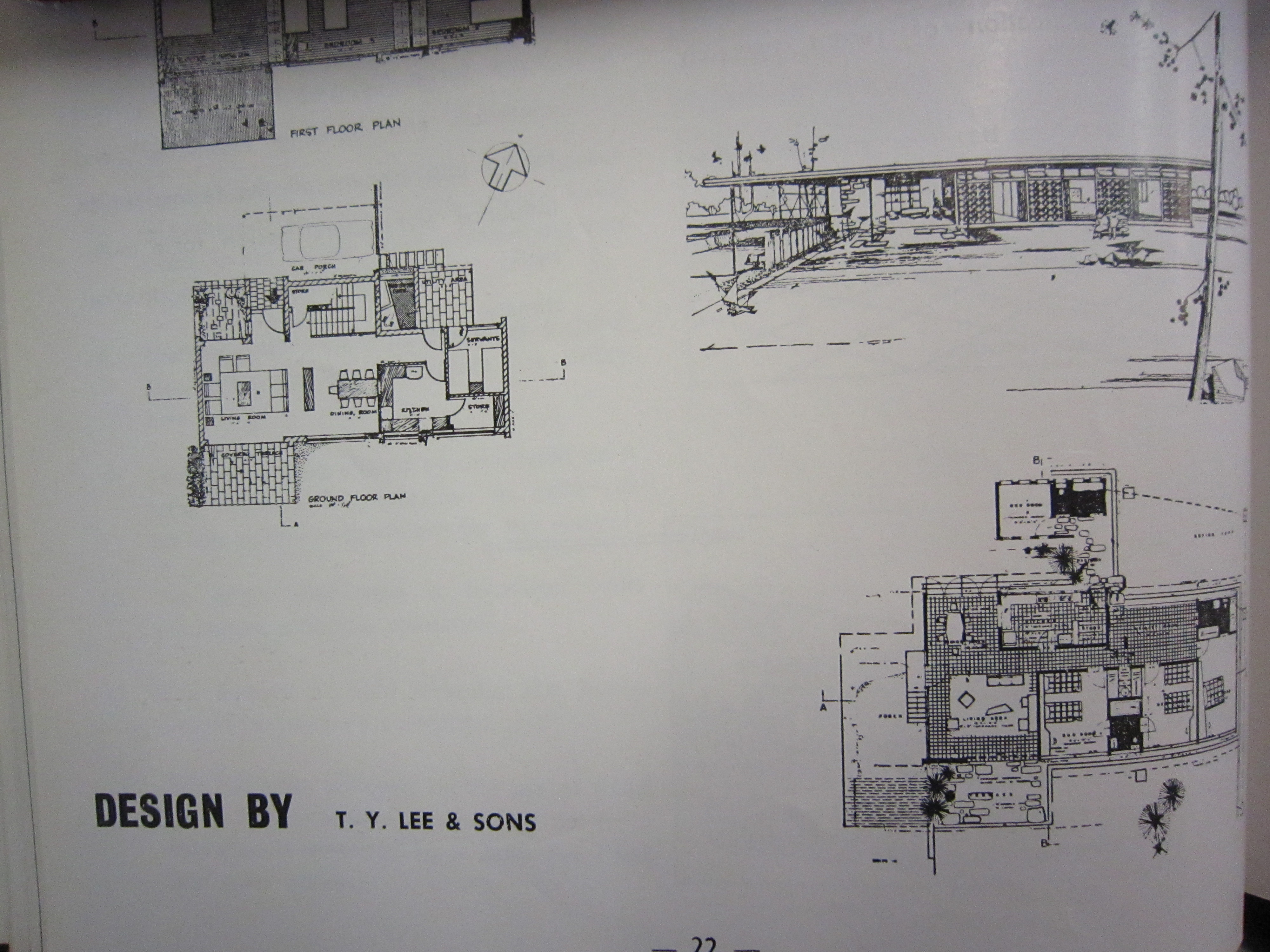 Bungalow Designed by T.Y. Lee & Sons